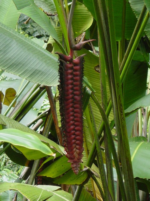 Hanging Heliconia found on Hawaii Island (H. mariae). I took this picture on the Big Island of Hawaii. Copyright is released to wikipedia. Kowloonese 12:23, 21 Feb 2004 (UTC)